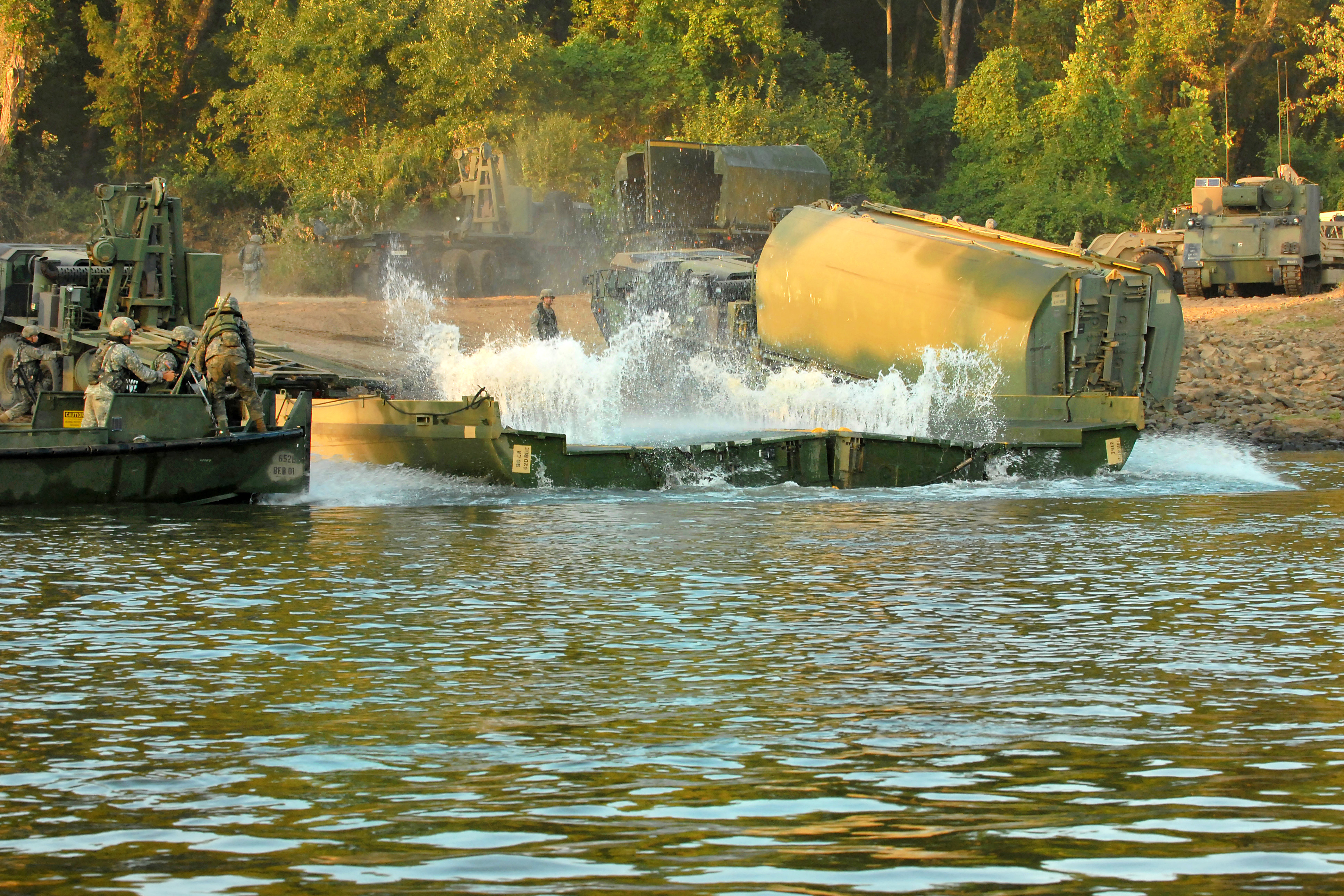 Soldiers launch and position bridge bay sections during River Assault 2011 on Fort Chaffee, Ark., July 27, 2011.